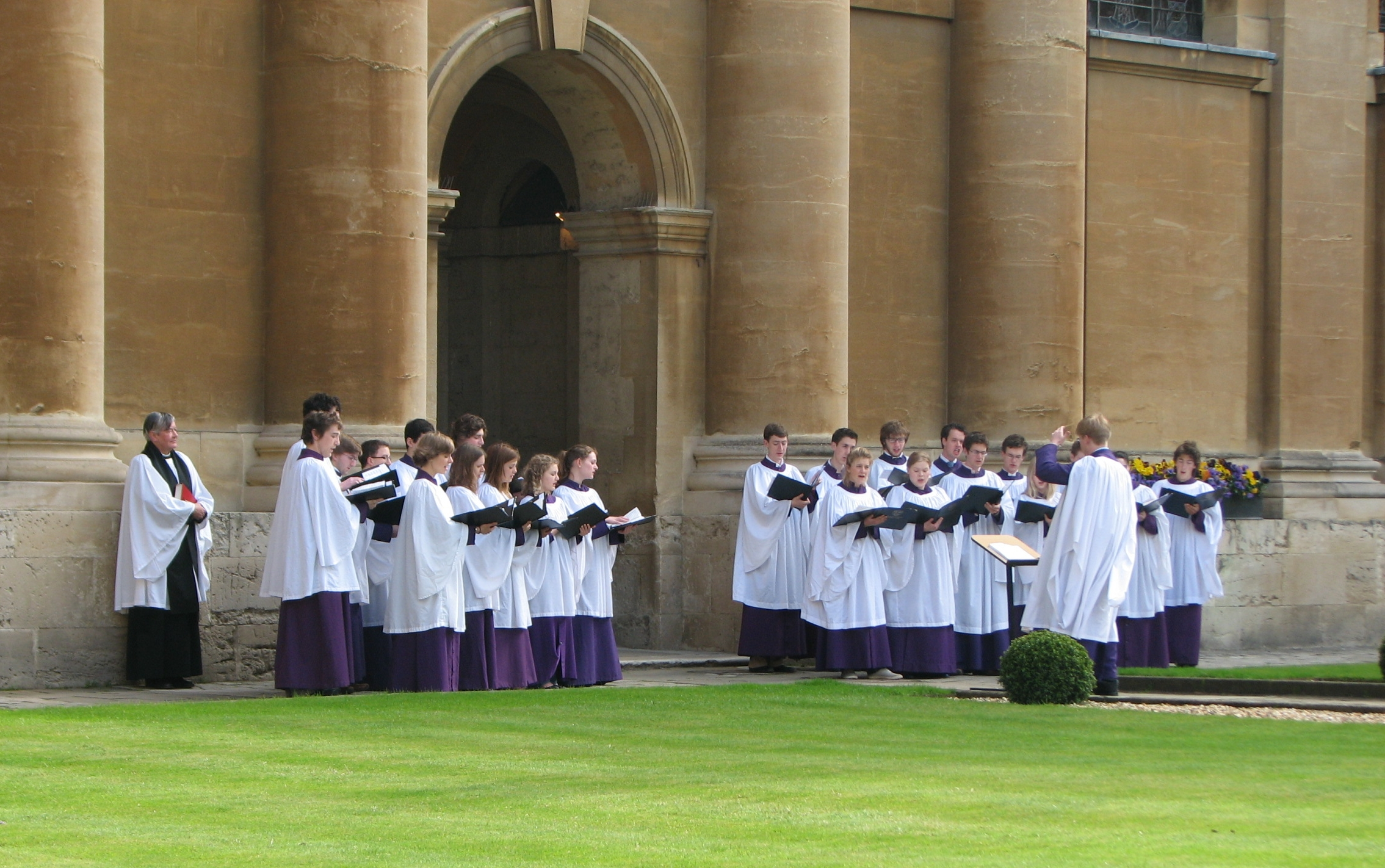 The choir of The Queen's College perform in the Front Quad of the college on Ascension morning 2009. The chaplain stands on the left of the photo.